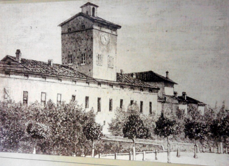 Castle